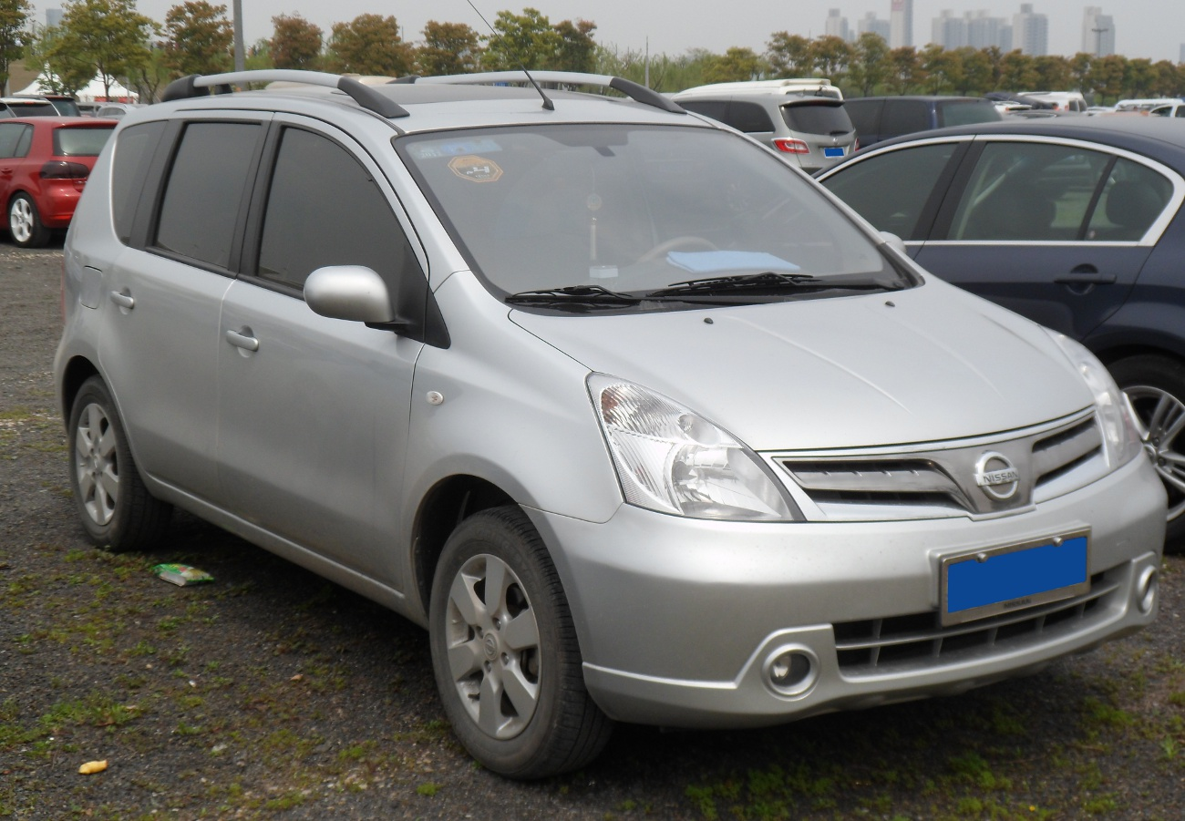 Nissan Livina L10 photographed in Anting, Shanghai municipality, China.